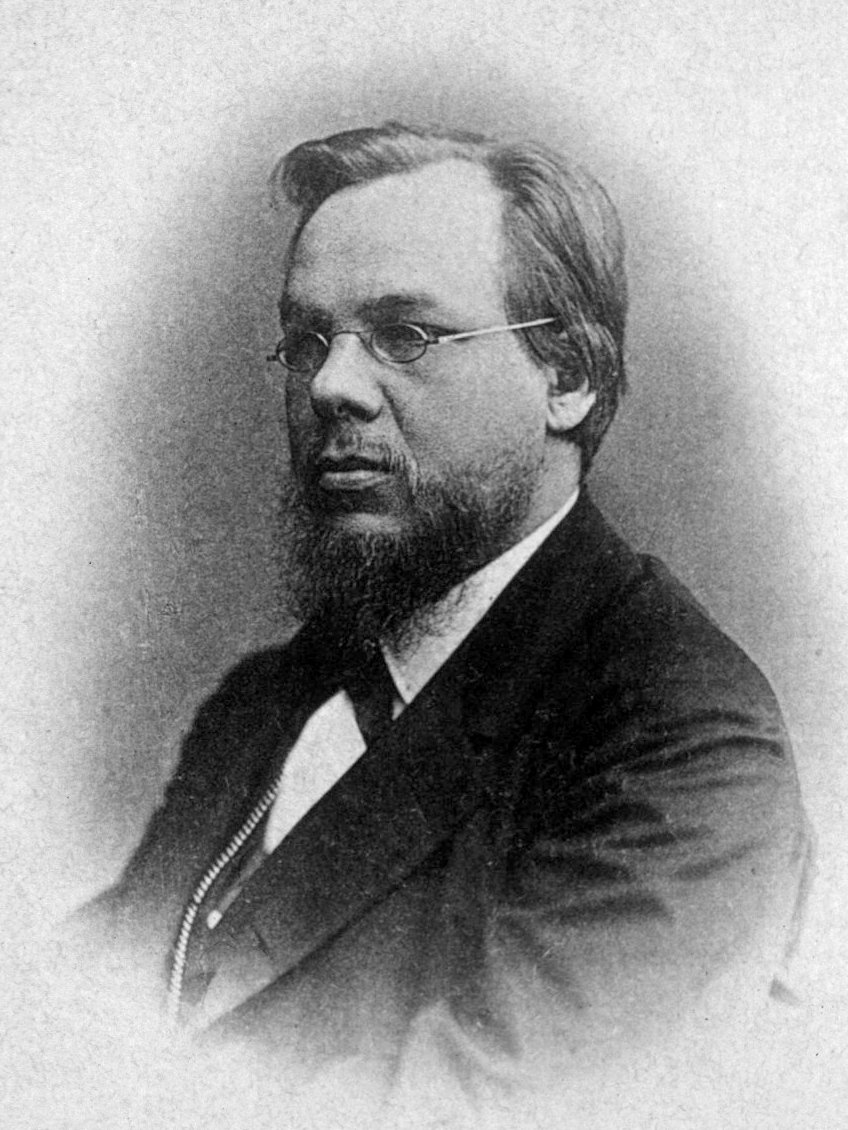 Sergei Petrovich Botkin